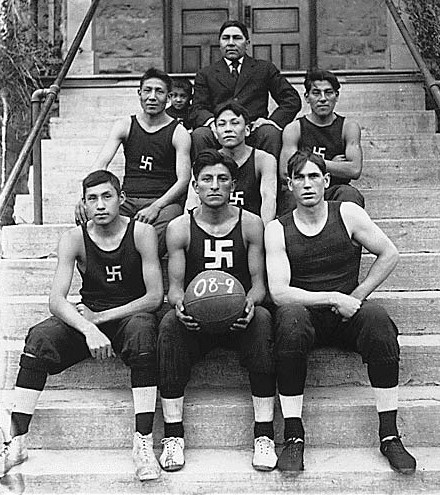 Chilocco Indian Agricultural School Basketball team on Home 1 Steps, 1909. This photograph is part of a series of glass plate negatives used by the Chilocco Indian School print shop in publishing the Indian School Journal.